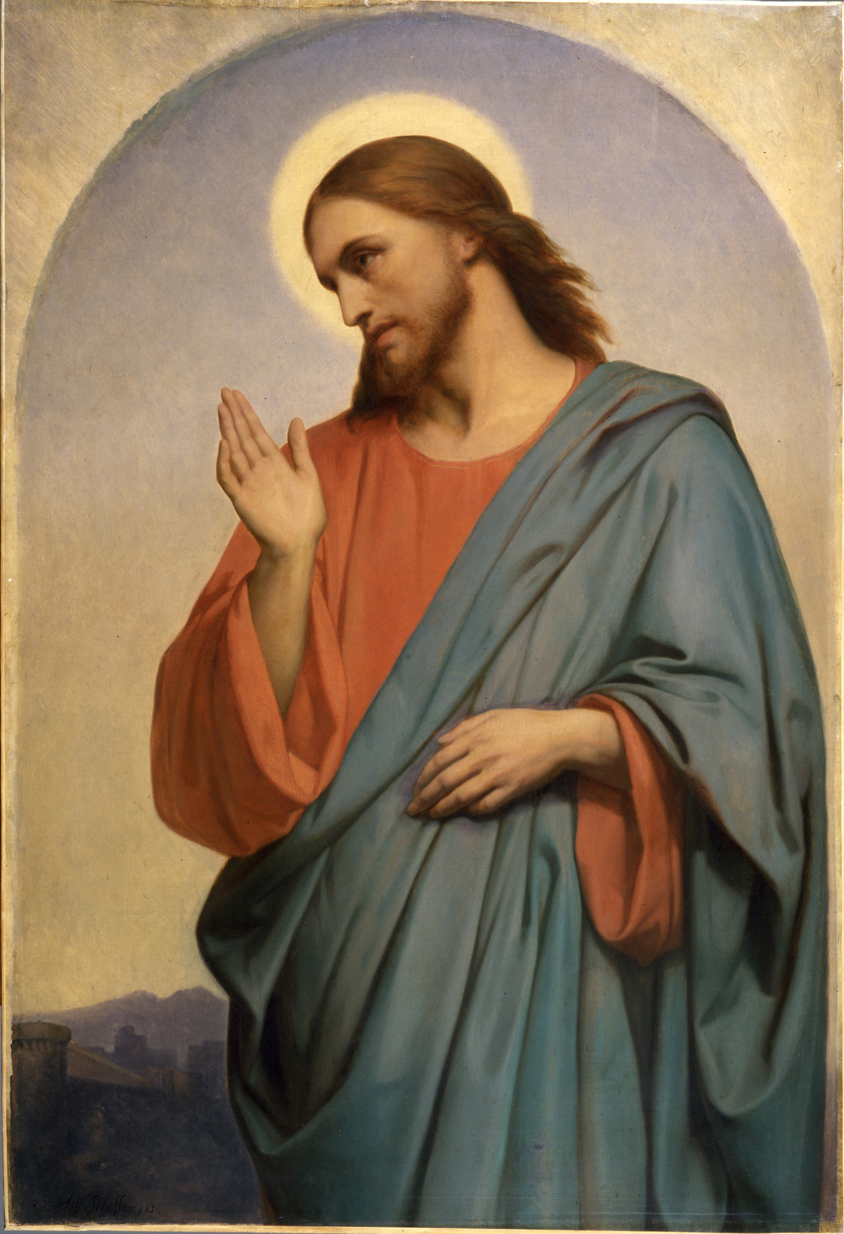 Before enrolling in the École des Beaux-Arts, Scheffer studied with the neoclassically trained artist Pierre-Joseph Proudhon, whose mastery of the art of the past and high technical finish he emulated. He exhibited his first works at the age of 17 in the 1812 Salon in the so-called "juste-milieu" (in English, literally, middle path) tradition. Scheffer was attracted to romantic themes gleaned from contemporary authors such as Sir Walter Scott and Goethe. His meteoric rise in the art world drew instant critical acclaim and the acquaintance of such artists as Théodore Géricault, Eugène Delacroix, and Paul Delaroche. This work was not seen until after Scheffer's death. He stopped exhibiting at the Salon altogether in 1846 and became increasingly preoccupied with religious imagery with a seriousness that reflects a pointed departure from his earlier, more anecdotal work. In this iconic image, he focuses on the solitary figure of Christ, who is weeping for the coming destruction of Jerusalem, as described by the Evangelist Luke in the New Testament (19:41): "As he came near and saw the city, he wept over it."